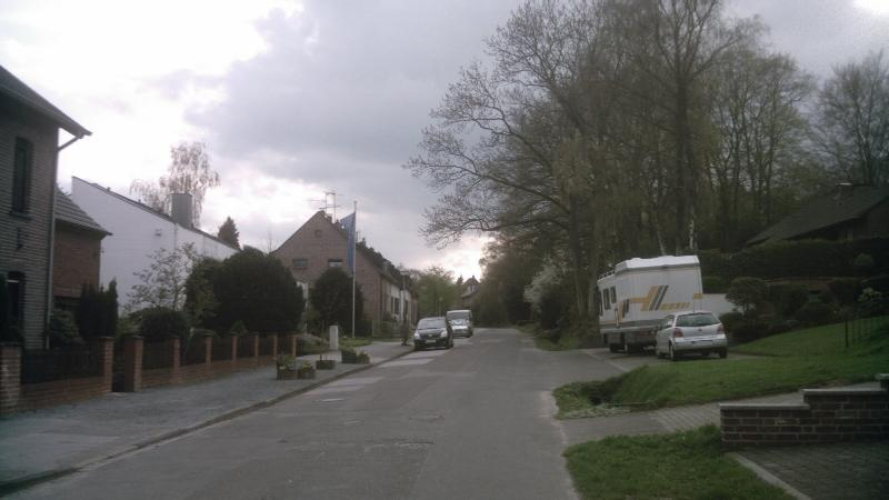 The "Omperter Weg" between Ummer and Ompert in Viersen, Germany.